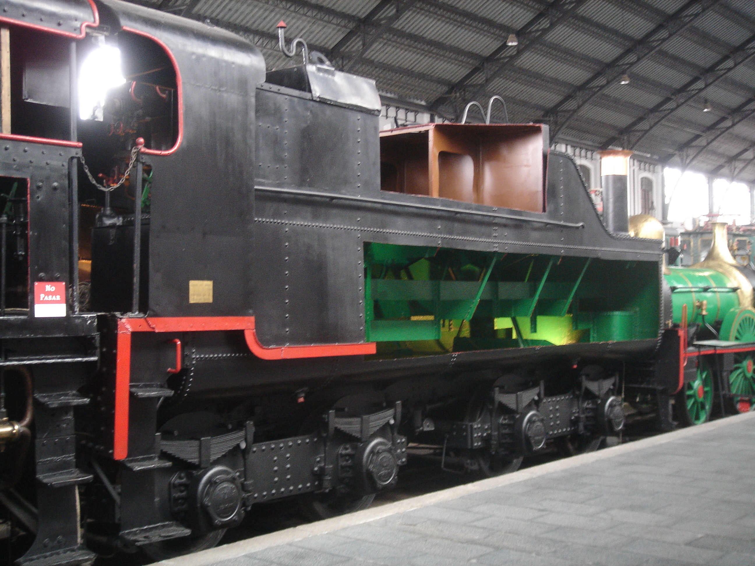 Tender of Renfe steam engine 141F 2416. Railwaymuseum Madrid Delicias